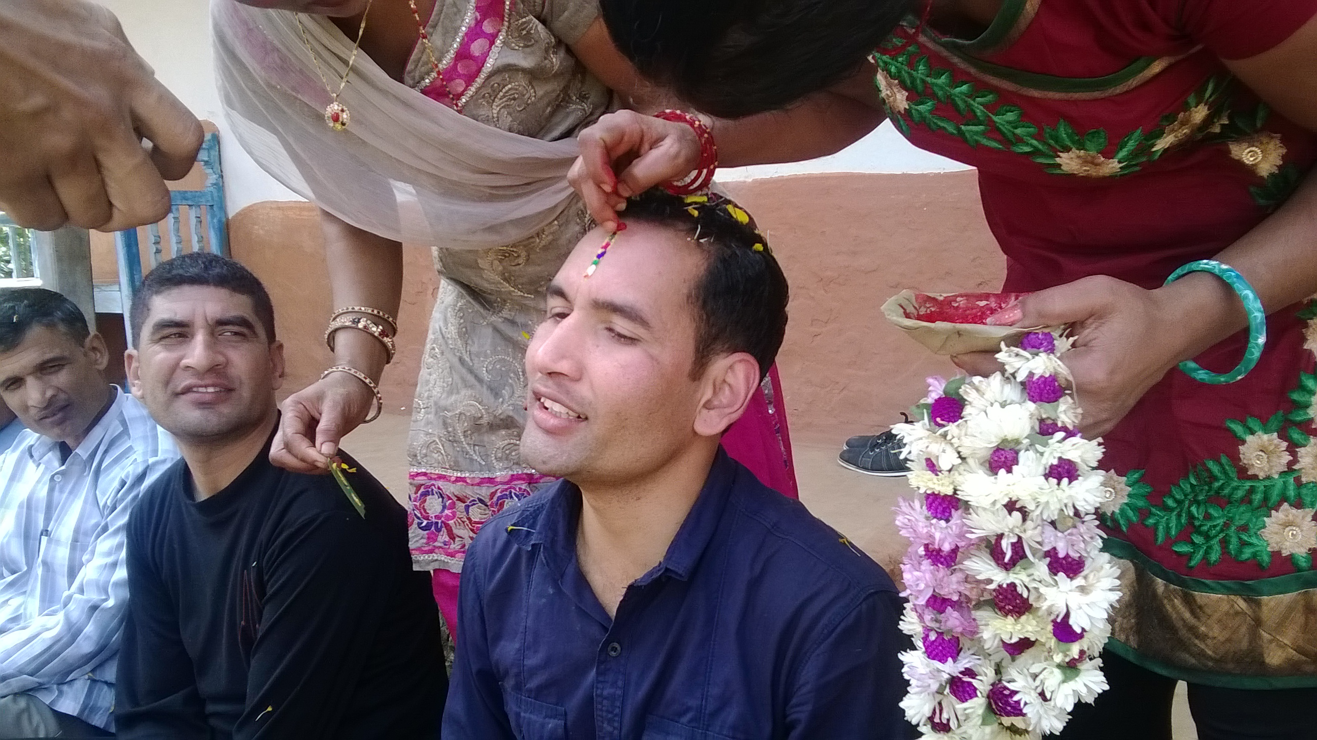 Celebration of bhaitika in Panchkhal Valley.